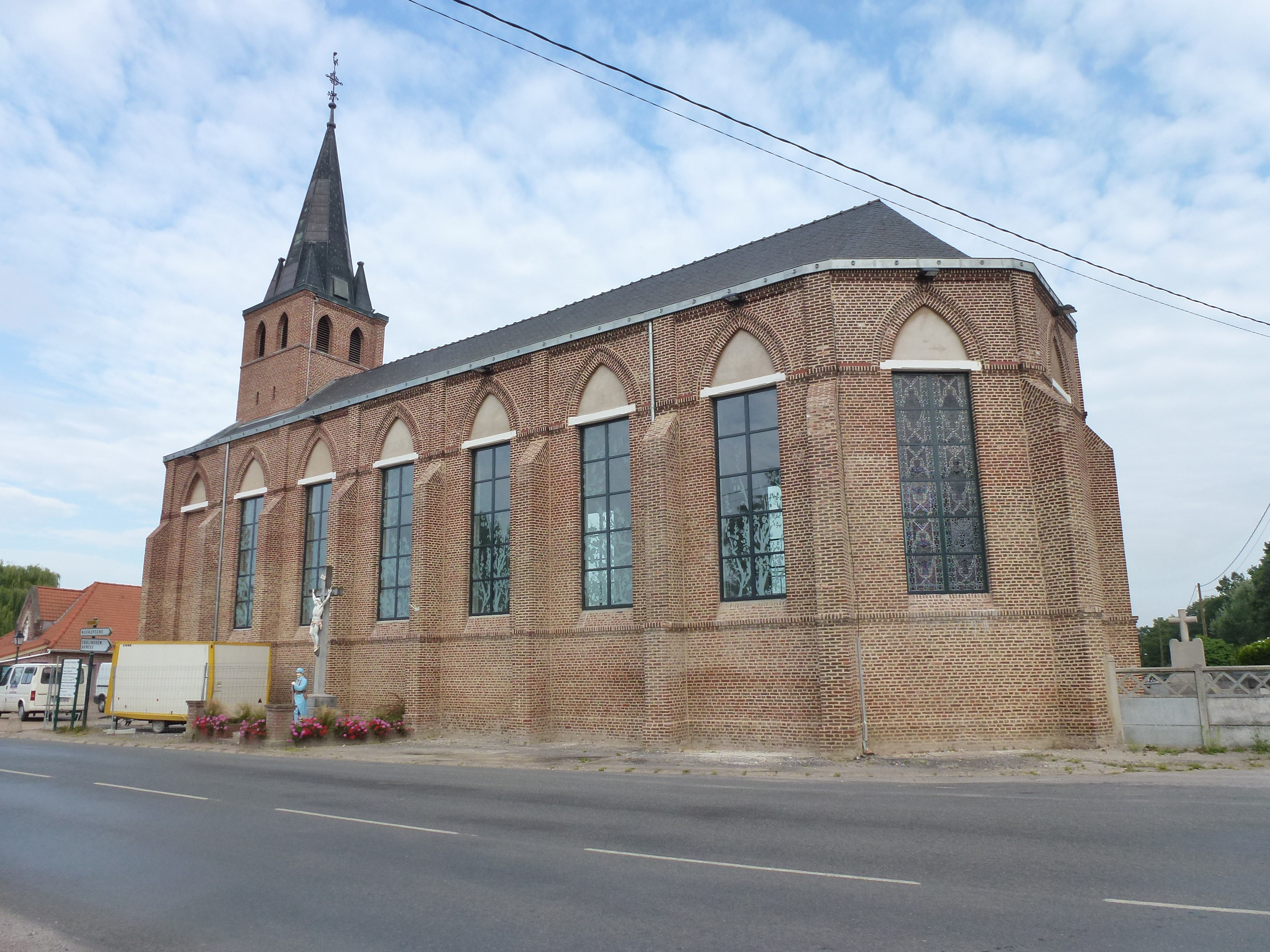 Clairmarais (Pas-de-Calais, Fr) l'église en restauration 2013